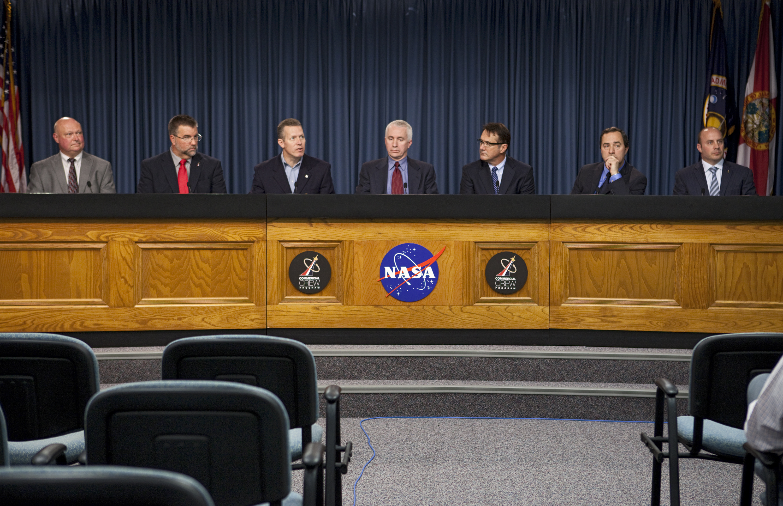 CAPE CANAVERAL, Fla. -- At a news conference NASA officials and industry partners discuss progress of the agency's Commercial Crew Program CCP. Participating in the briefing, from the left are, Mike Curie, NASA Public Affairs, Ed Mango, NASA Commercial Crew Program manager, Phil McAlister, NASA Commercial Spaceflight Development director, Rob Meyerson, Blue Origin president and program manager, John Mulholland, The Boeing Company Commercial Programs Space Exploration vice president and program manager, Mark Sirangelo, Sierra Nevada Corp. vice president and SNC Space Systems chairman and Garrett Reisman, Space Exploration Technologies SpaceX Commercial Crew project manager. Through CCP, NASA is facilitating the development of U.S. commercial crew space transportation capabilities to achieve safe, reliable and cost-effective access to and from low-Earth orbit for potential future government and commercial customers.